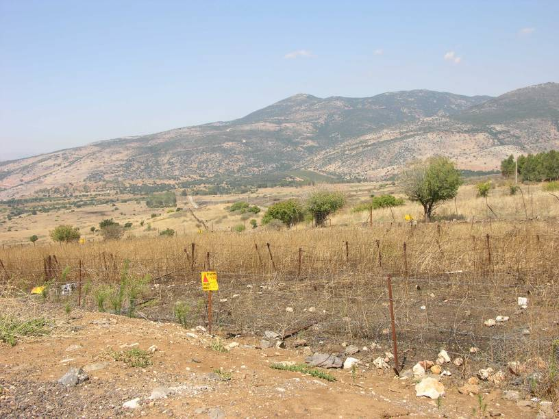 Tel Faher, mine fields surrounding the former Syrian outpost, in the background part of the Shebaa farms